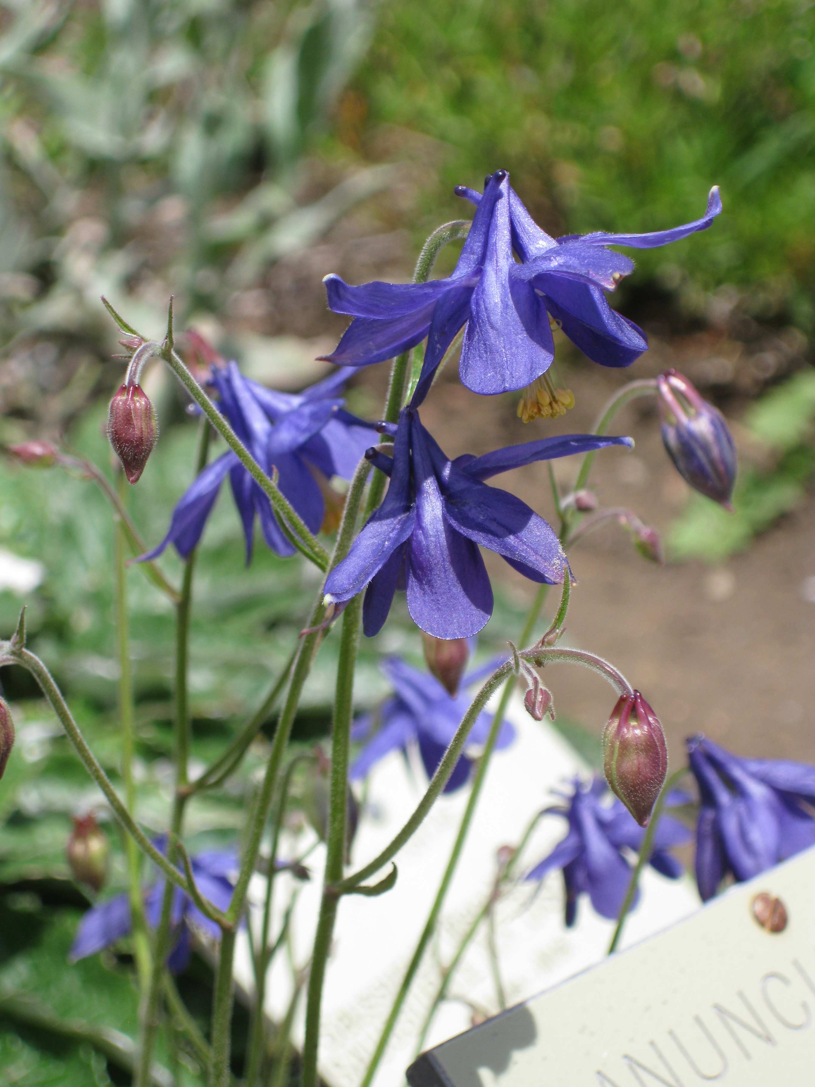 Aquilegia einseleana in the Jardin Botanique Alpin du Lautaret